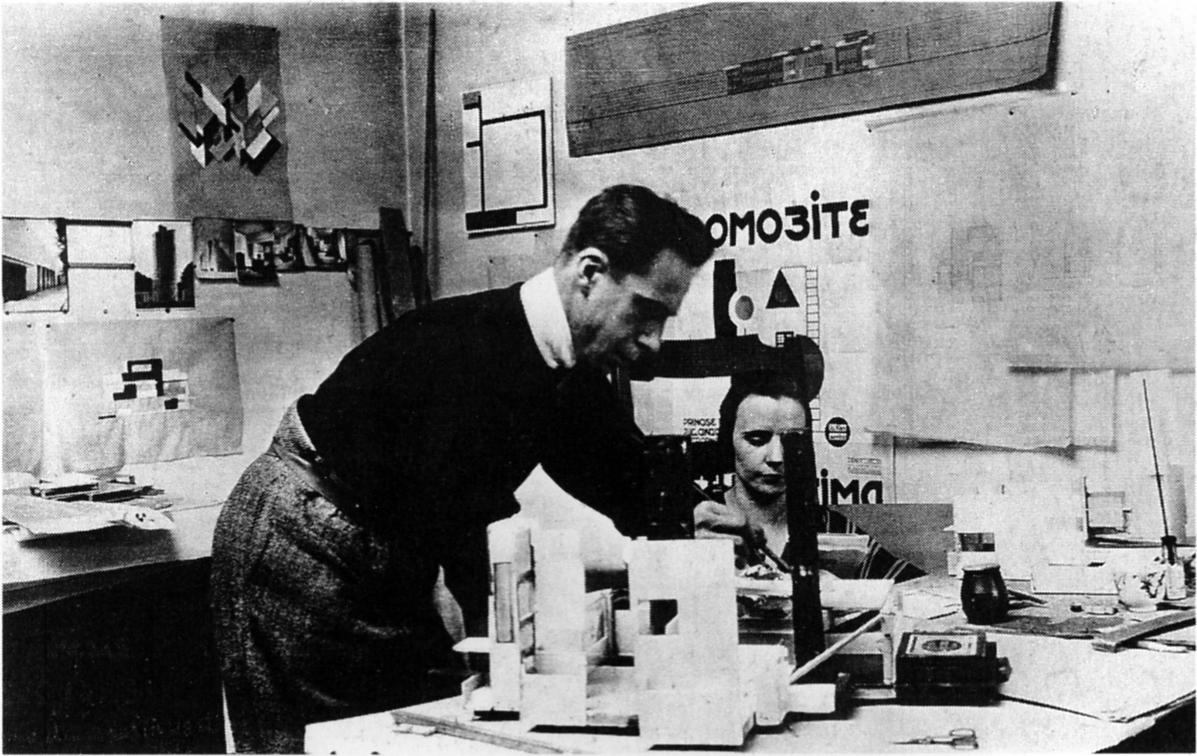 Anonymous. Theo and Nelly van Doesburg in the studio on Rue du Moulin Vert, Paris. 1923. From Periszkop, vol. 1, nr. 4 (1925).